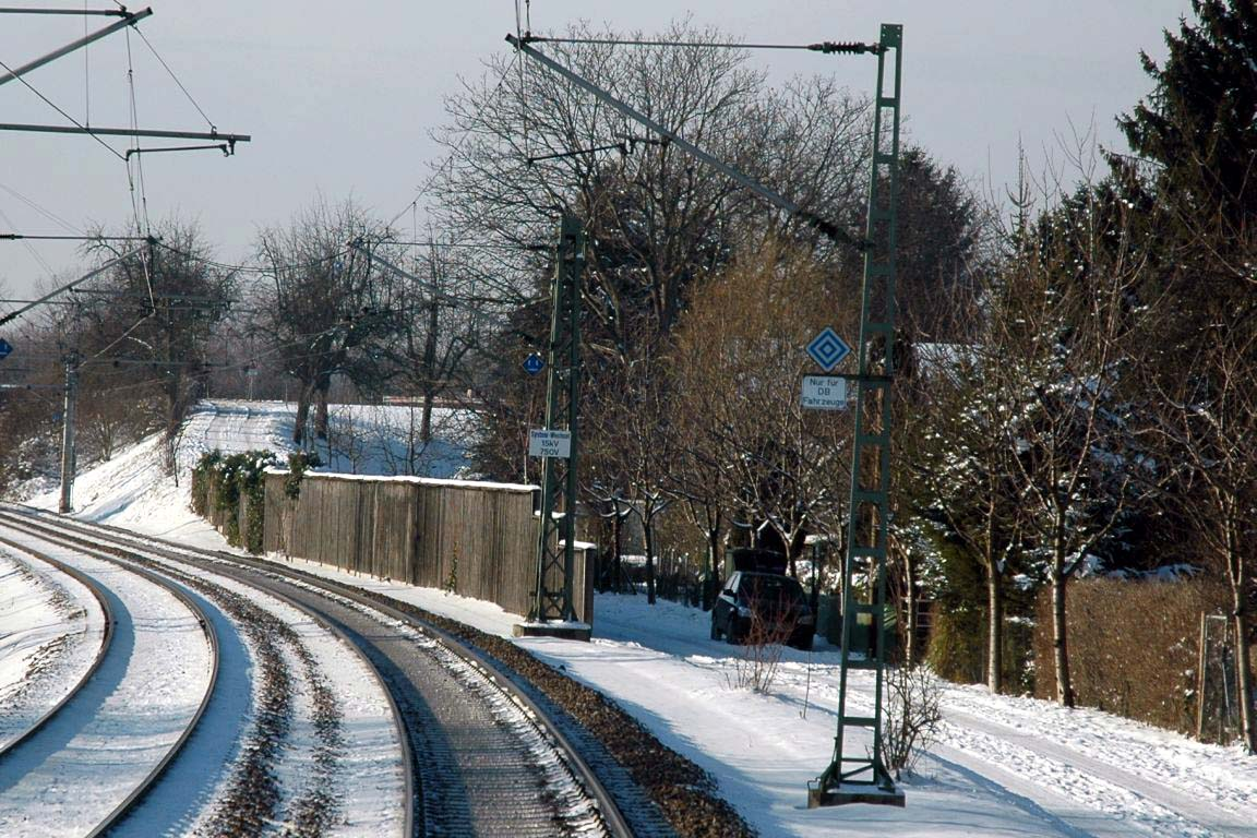 system change from train to tram between Karlsruhe-Grötzingen and -Durlach